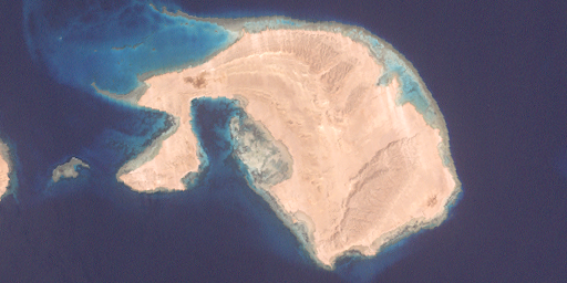 Sanafir Island, east of Tiran Island, Red Sea, Saudi Arabia/Egypt